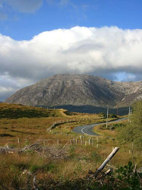 The road to Leenaun The R344 snakes north towards Leenaun. Letterbreckaun (667m) dominates the background. (The broken branch in the foreground is in L8449, though the road is in L8450 - and the peak in L8555)